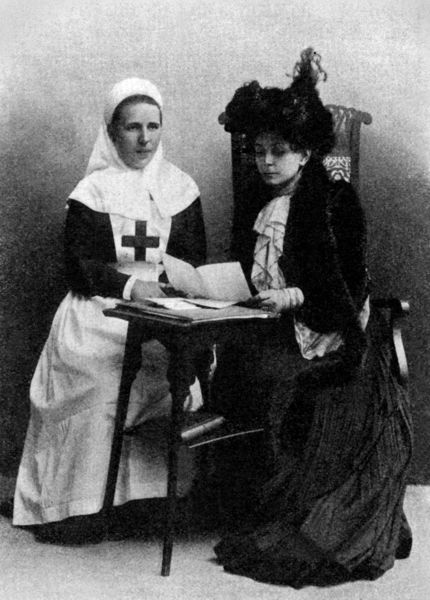 Baroness Varvara Ivanovna Ikskul von Hildenbandt (right) in Community of Nurses named after M. P. Kaufman, 1905–1905